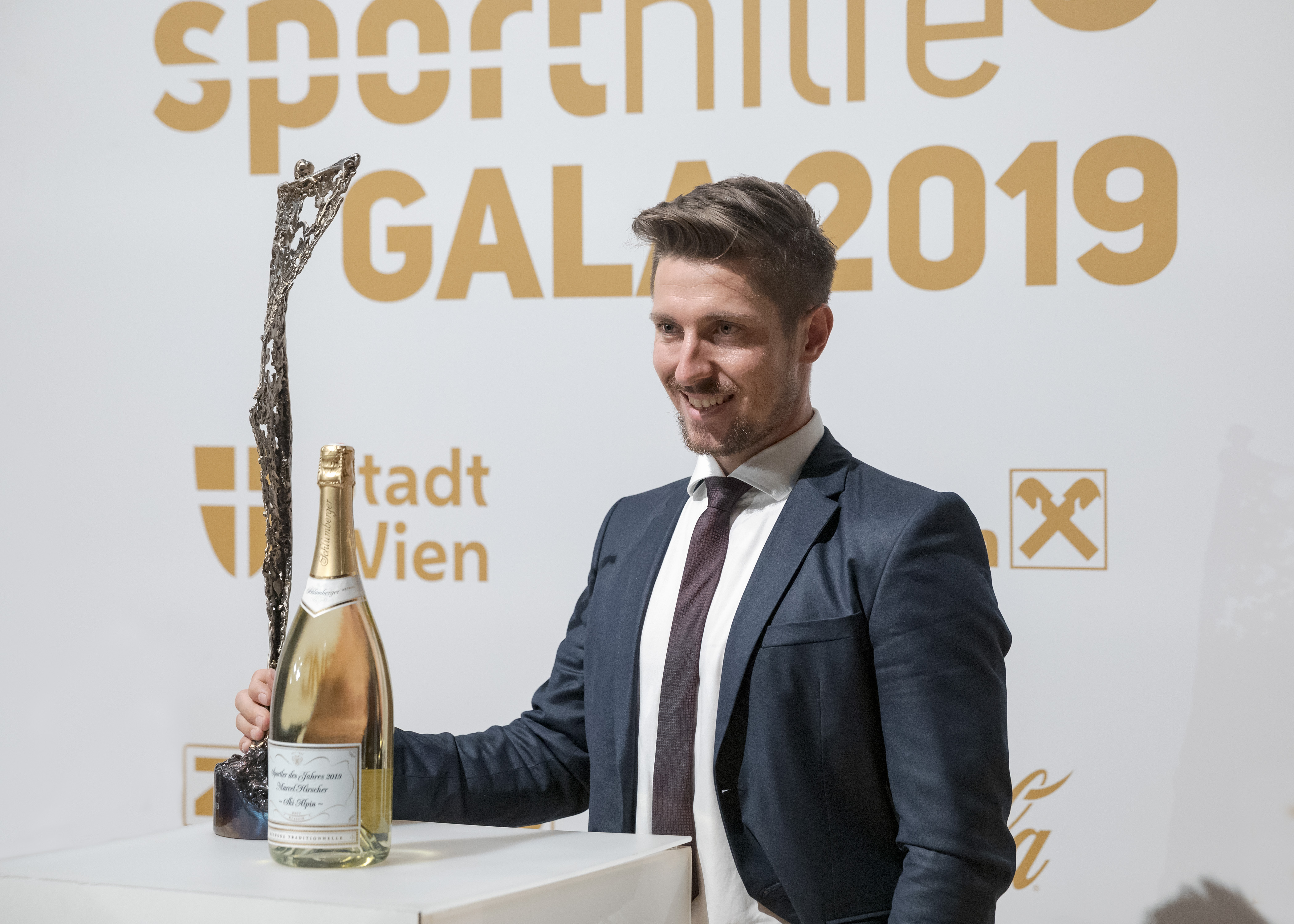 Marcel Hirscher, Austria's Sports Personality (men) of the Year 2019 (Marx Halle, Sankt Marx, Vienna, Austria).